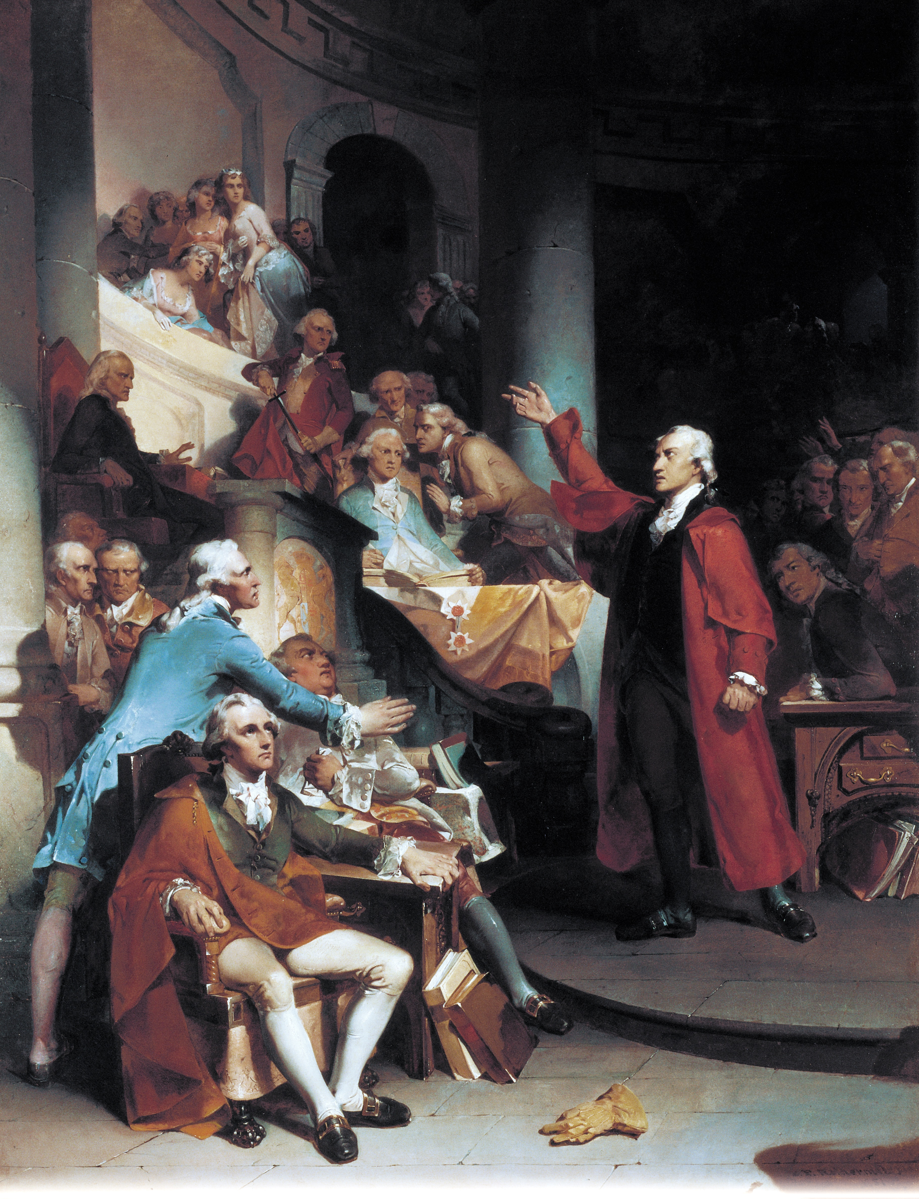 Painting of Patrick Henry's "If this be treason, make the most of it!" speech against the Stamp Act of 1765